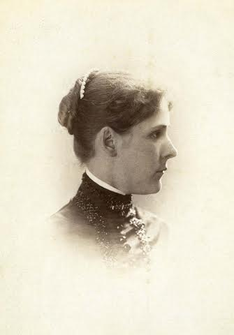 Photograph of Julia Brainerd Hall, taken for her 1881 Oberlin College Senior Year Portrait by Oberlin photographer Arthur Courtland Falor